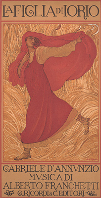 Lithograph for La figlia di Iorio by Gabriele d'Annunzio.